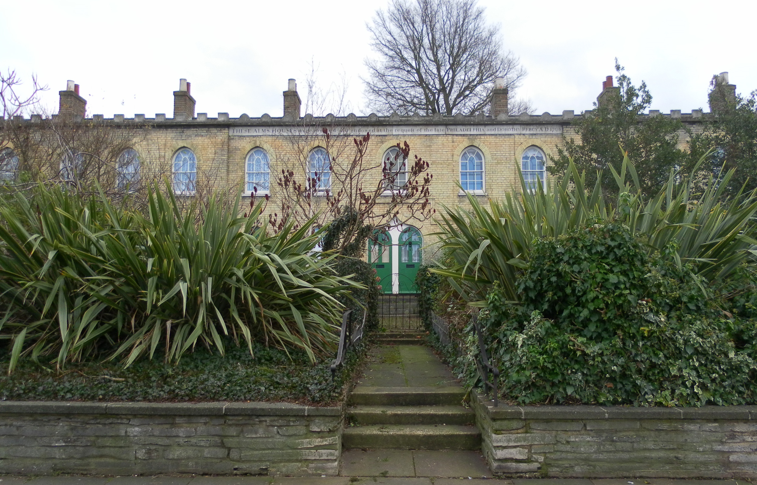 Percy and Wagner Almshouses, 1–12 Lewes Road, Hanover, City of Brighton and Hove, England. The middle six almshouses were built in 1795 in memory of Dorothy and Philadelphia Percy. The three on each end were added in 1859 by Henry Michell Wagner and Mary Wagner in memory of Frederick Hervey, 1st Marquess of Bristol. Listed at Grade II by English Heritage (NHLE Code 1381669)